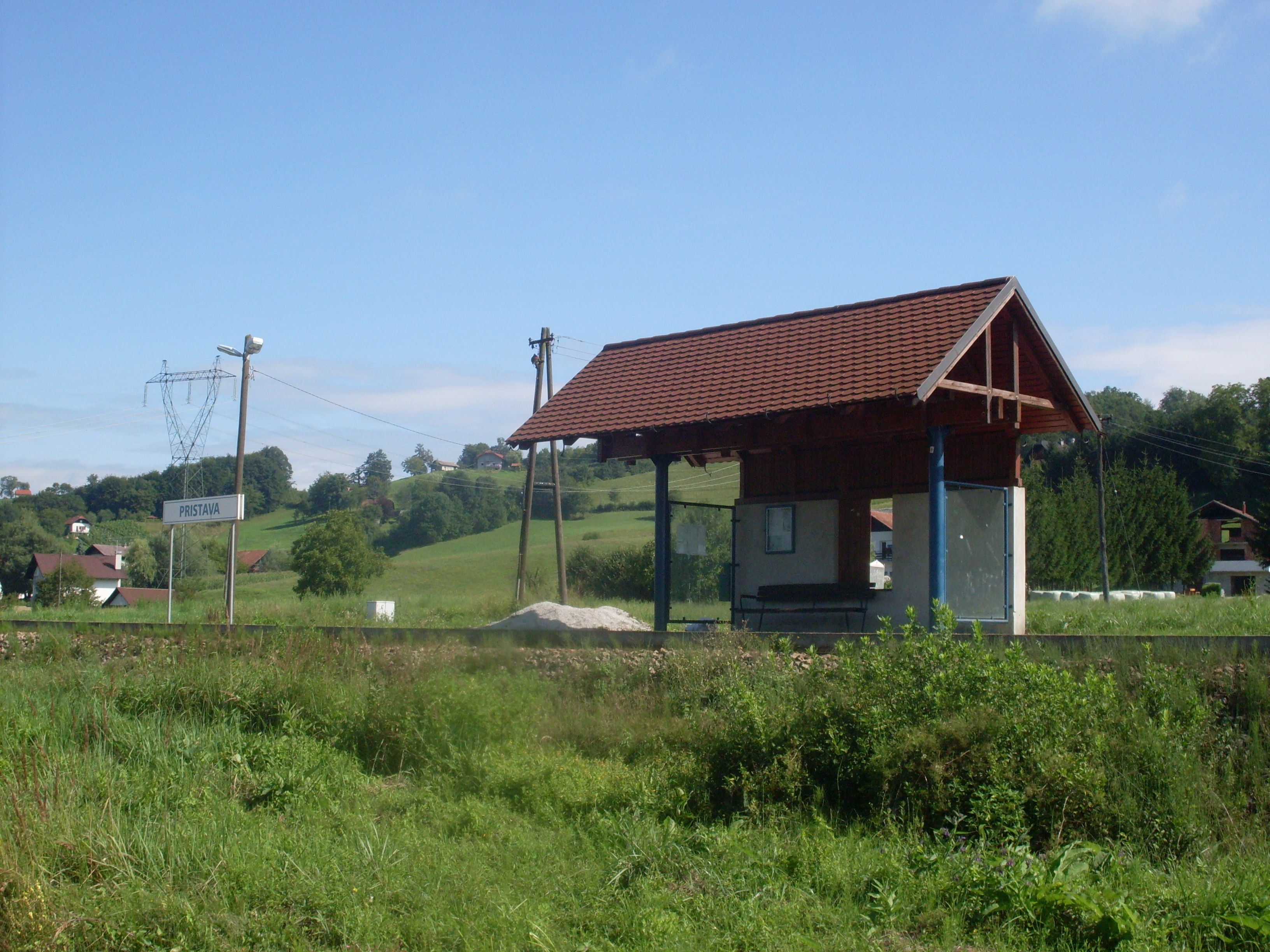 Railway halt Pristava, actually located in Dol pri PristaviSlovenščina: Železniško postajališče Pristava, pravzaprav se nahaja v Dolu pri Pristavi